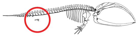 Skeleton of a Baleen whale circling the hind limbs and pelvic structure.